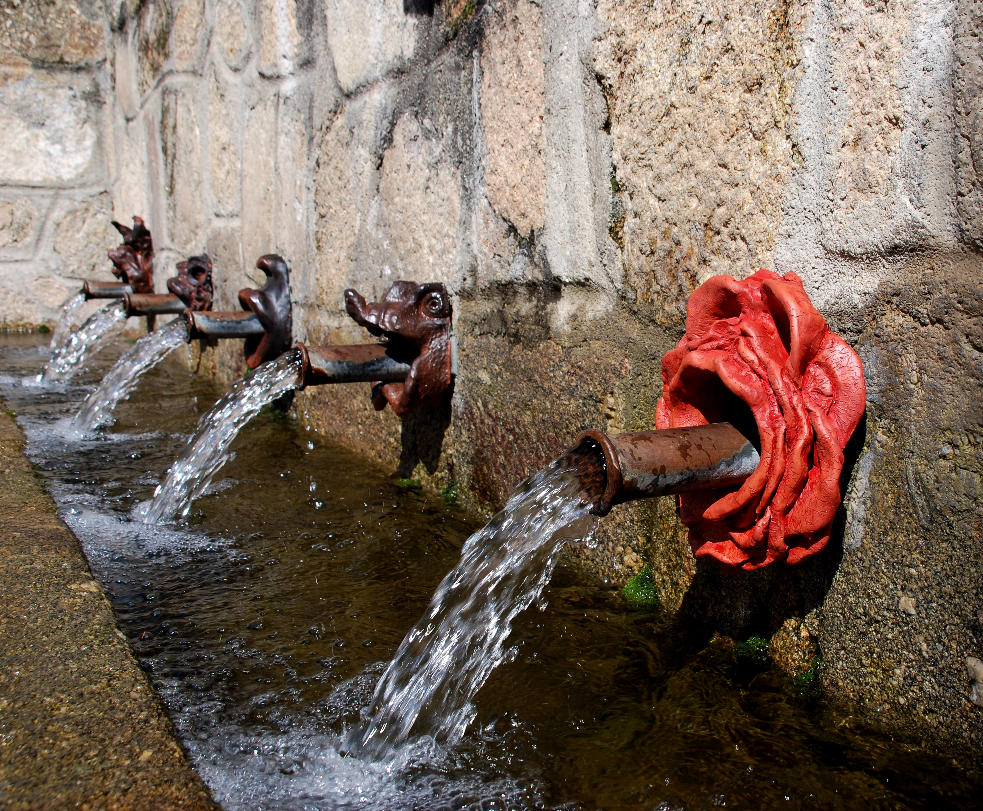 Fuente los ocho caños in Aldeanueva de la Vera, sculptures by studio Jan Russ (2016)